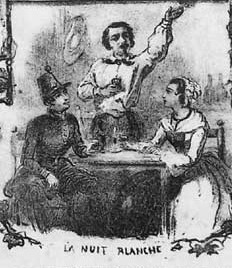 Scene from Une nuit blanche, detail from: Jacques Offenbach: Le Violoneux. Cover page of vocal score, published 1855